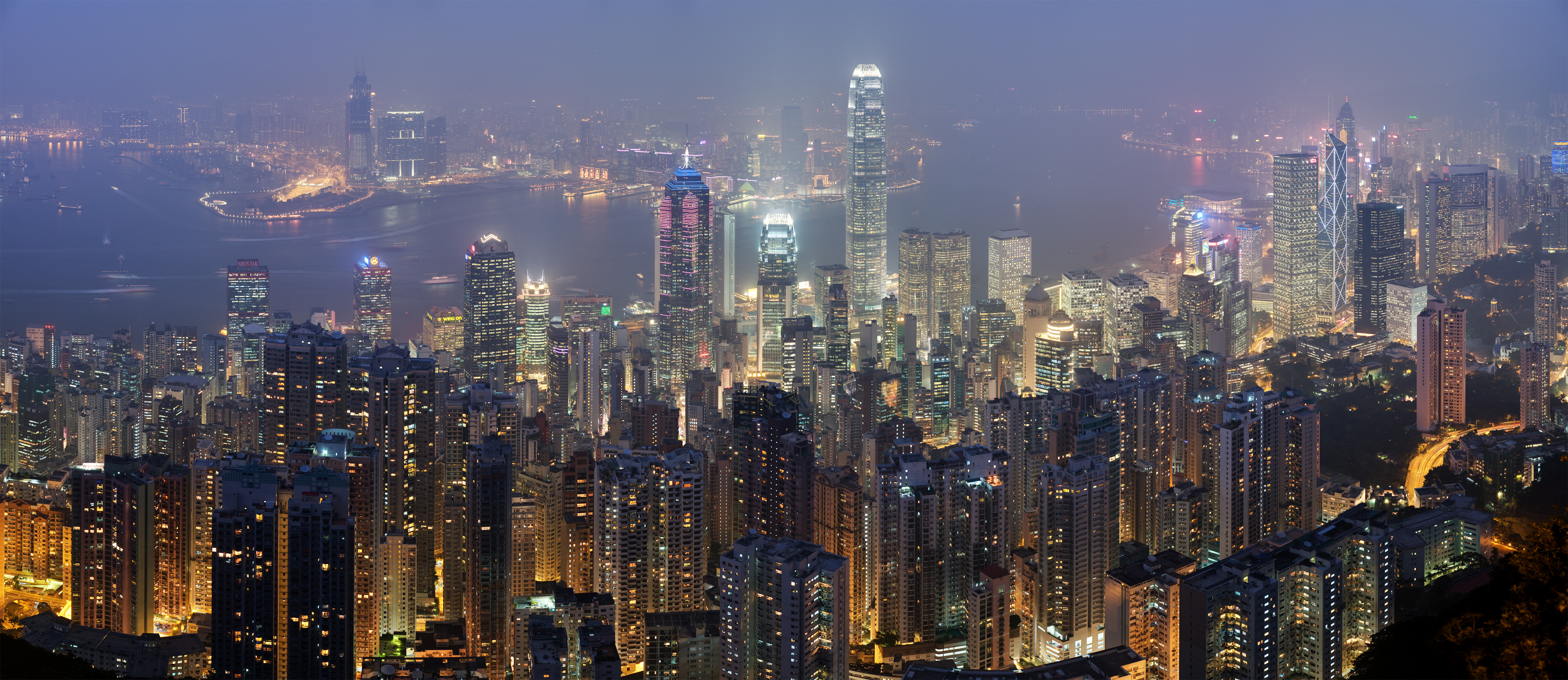 A 26 segment × 3 exposure (78 frames in total) panoramic view of the Hong Kong skyline taken from a path around Victoria Peak.